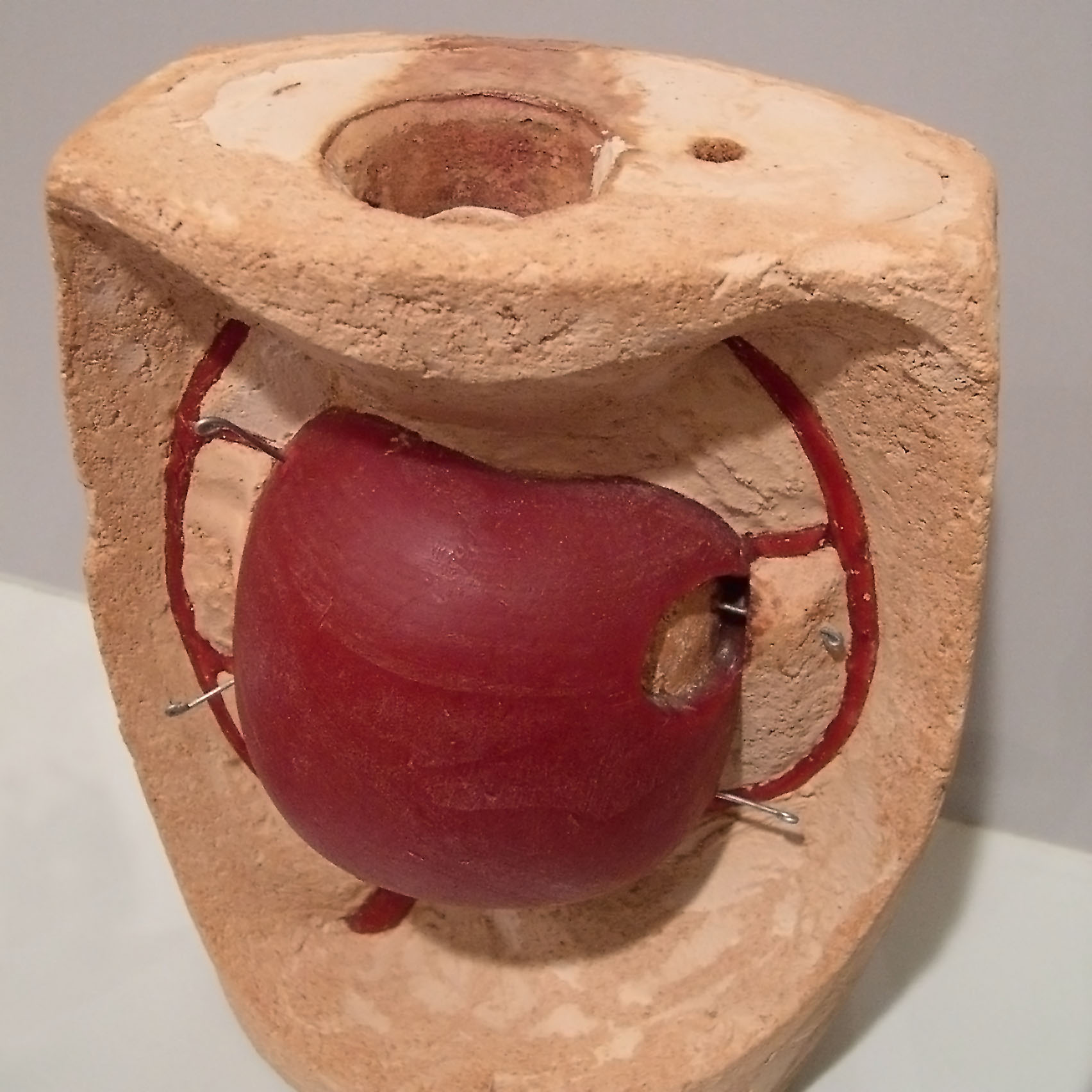 Lost Wax Casting: The hollow paraffin cast is "sprued" with a treelike structure of wax and covered in a fireproof mold of clay. The core is also filled, as seen by the hole on the right hand side. The stainless steel wires sticking out are core supports, intended to maintain the distance between core and shell once the wax has been melted out. Step 4 of the lost-wax bronze casting process